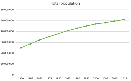 Total Population from 1960 to 2015 in South Korea